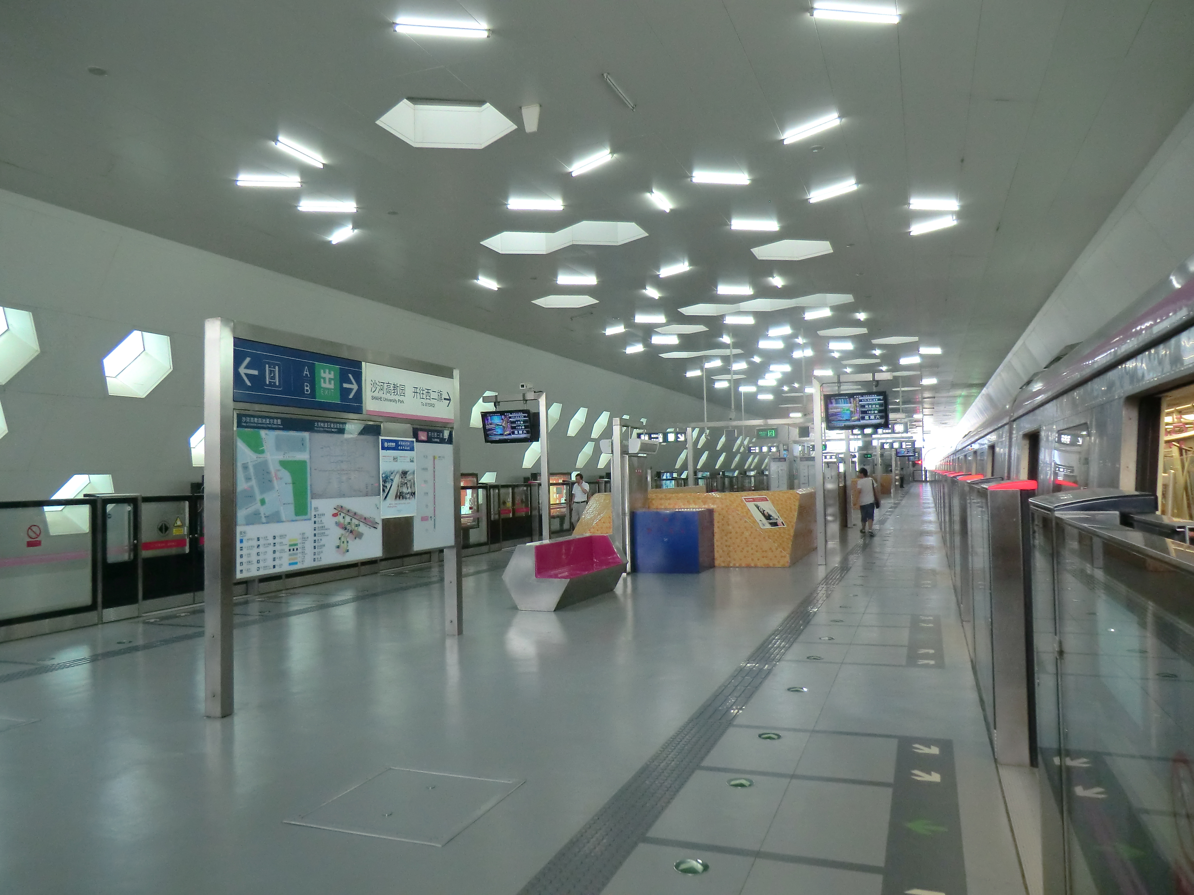 Beijing Subway, Changping Line, Shahe University Park station